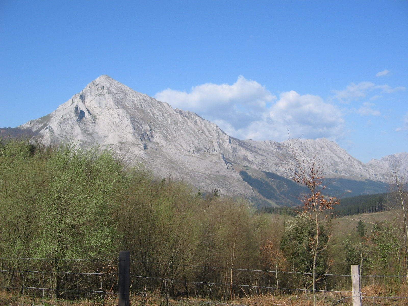 View of the mountain Anboto and mythological Mari's cave from the crossroads Besaide